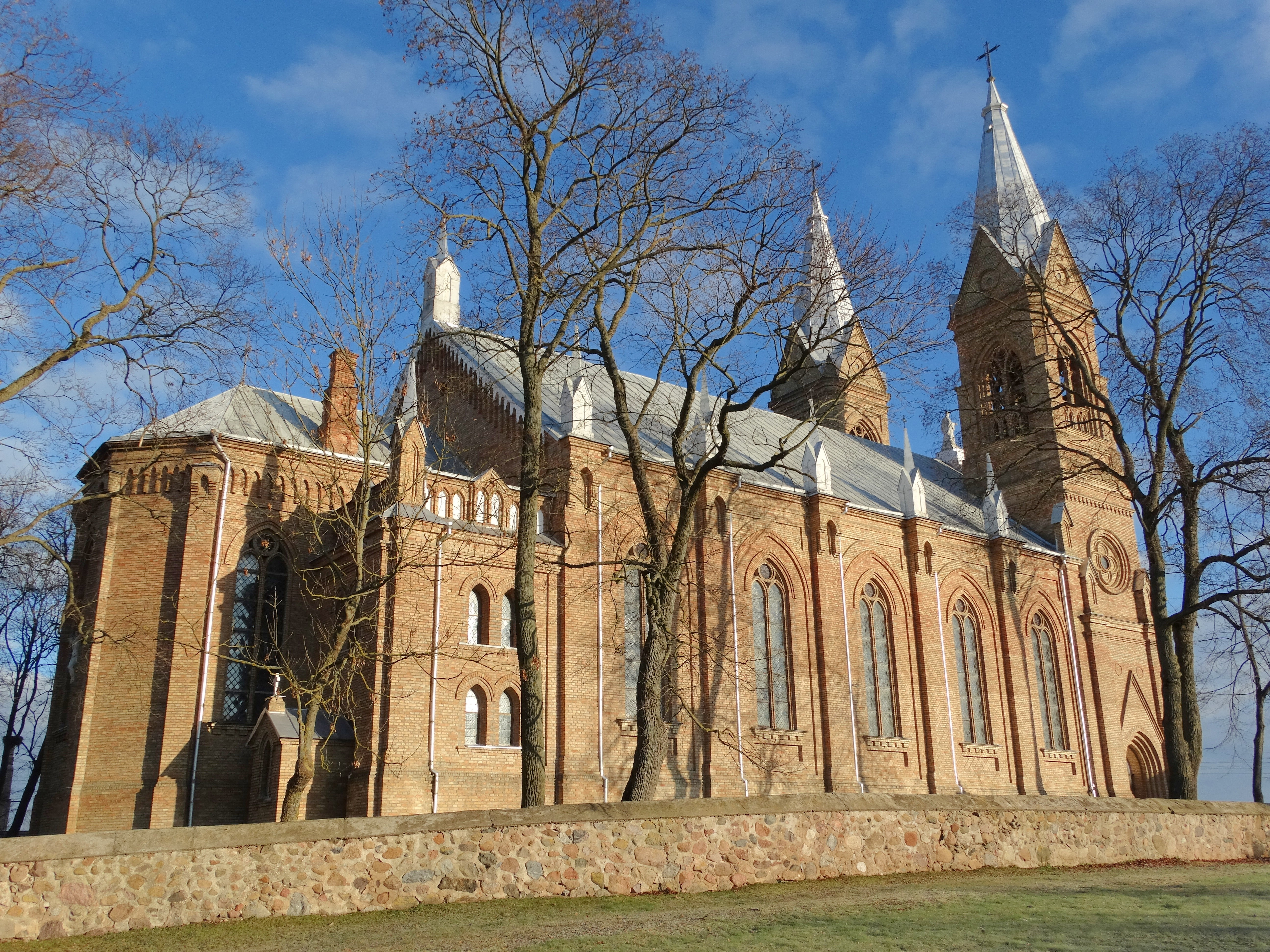 Basilica of the Assumption of The Holy Virgin Mary, Krekenava, Panevėžys District, Lithuania